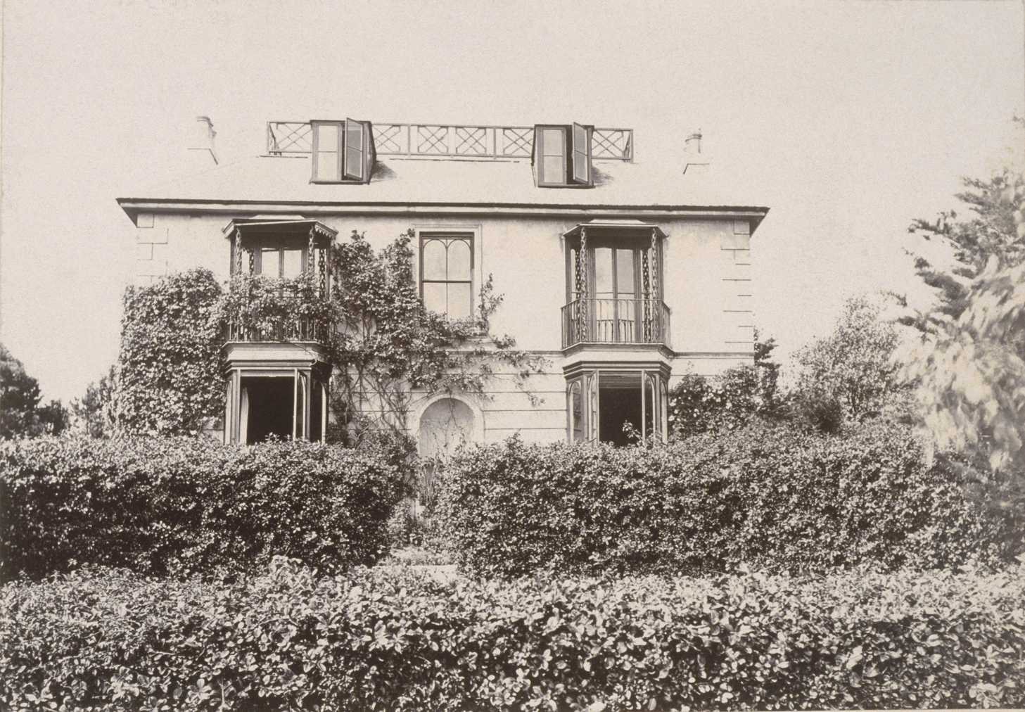 Talland House at St. Ives, Cornwall, England. Holiday home of the Stephen family.